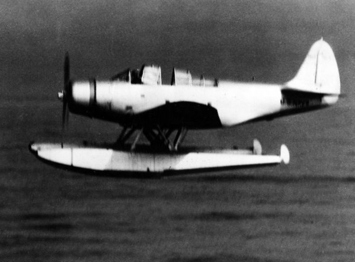 A U.S. Navy Douglas TBD-1A Devastator experimental floatplane (BuNo 0268) in low-level flight during torpedo drop tests at the Newport Torpedo Station, Rhode Island (USA), 10 October 1941.